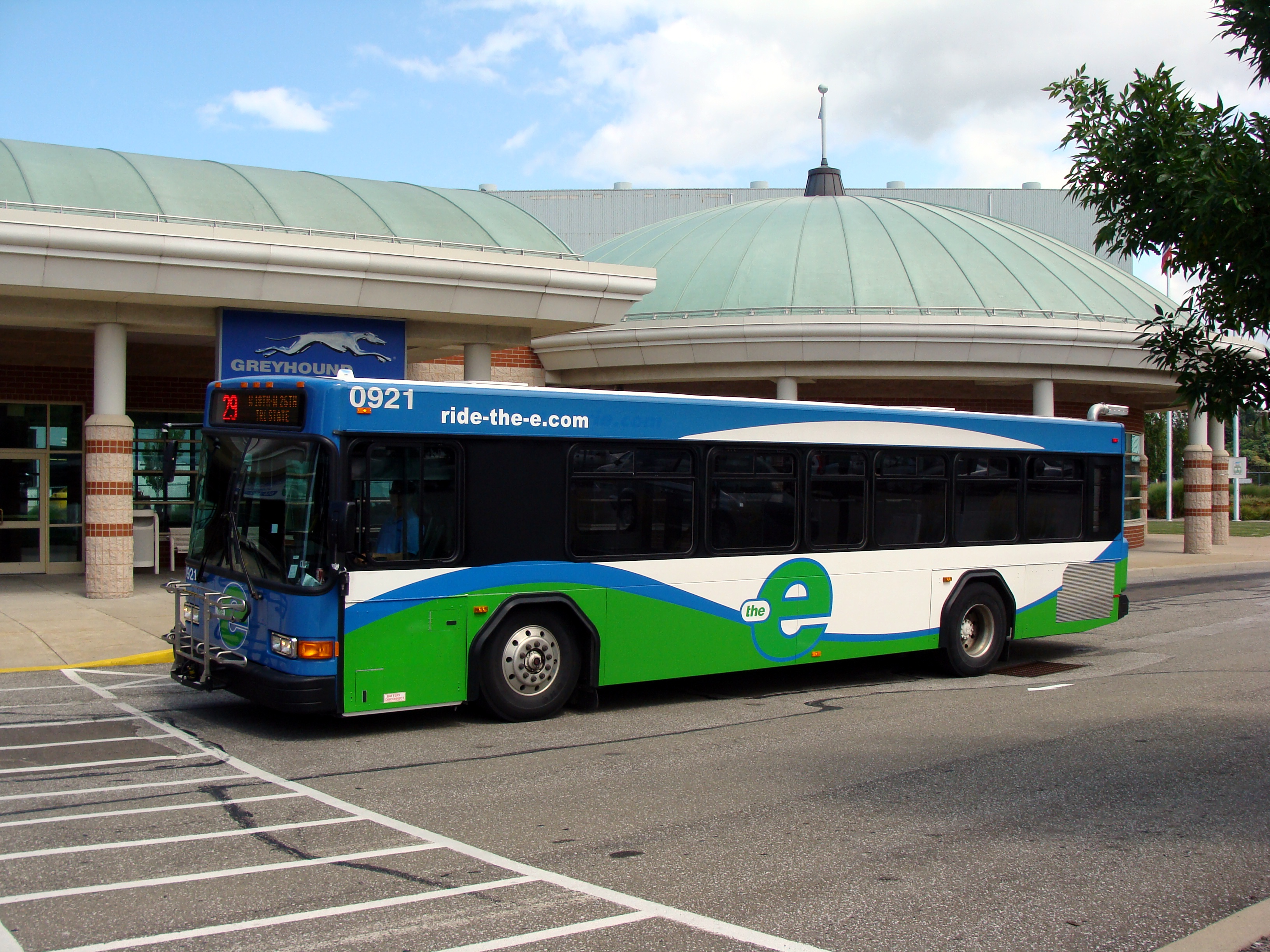 A Gillig Low Floor run by the Erie Metropolitan Transit Authority at the Intermodal Center in downtown Erie, Pennsylvania on Route 29.